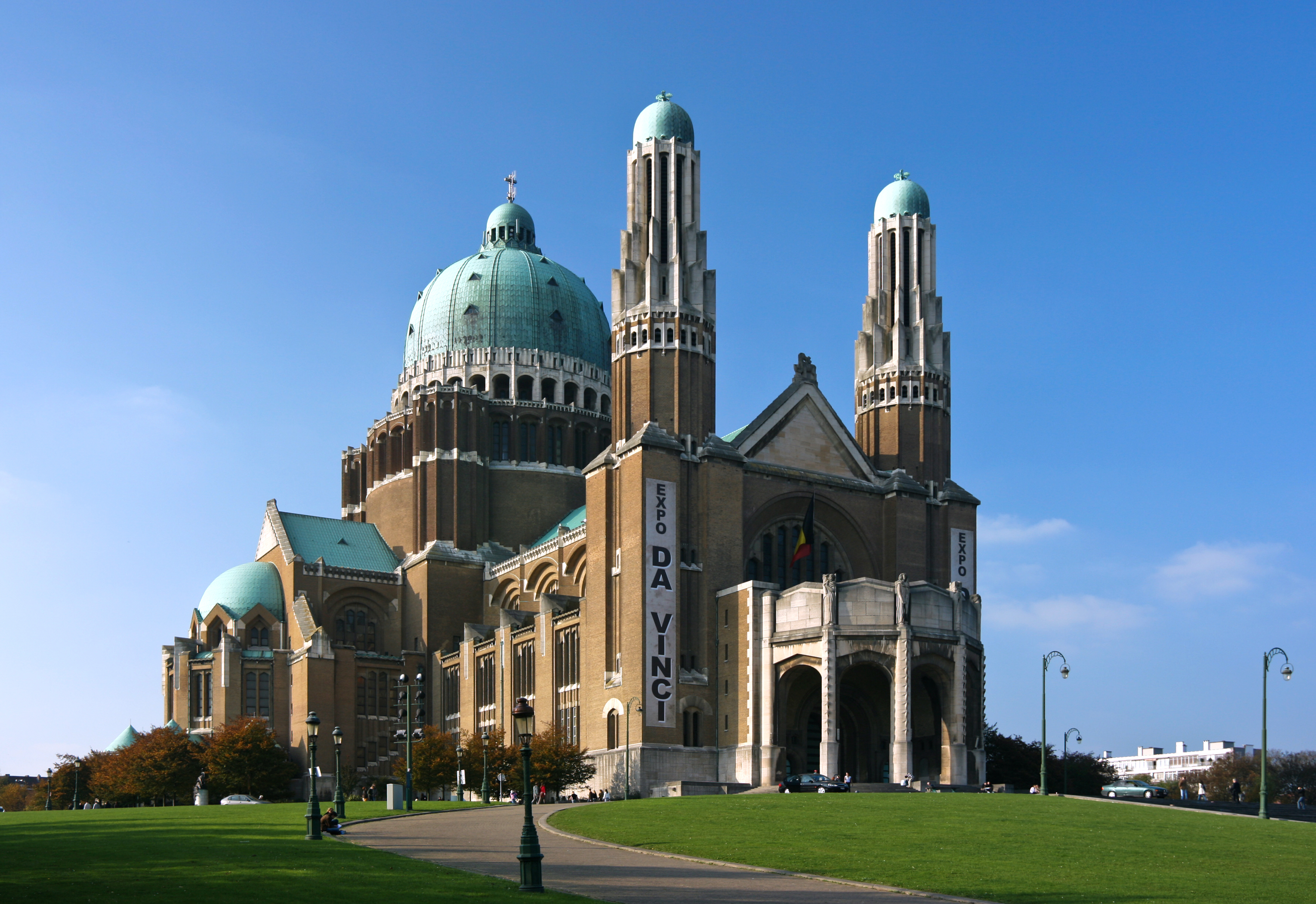 Basilica of the Sacred Heart, Belgium, with da Vinci expo banners.